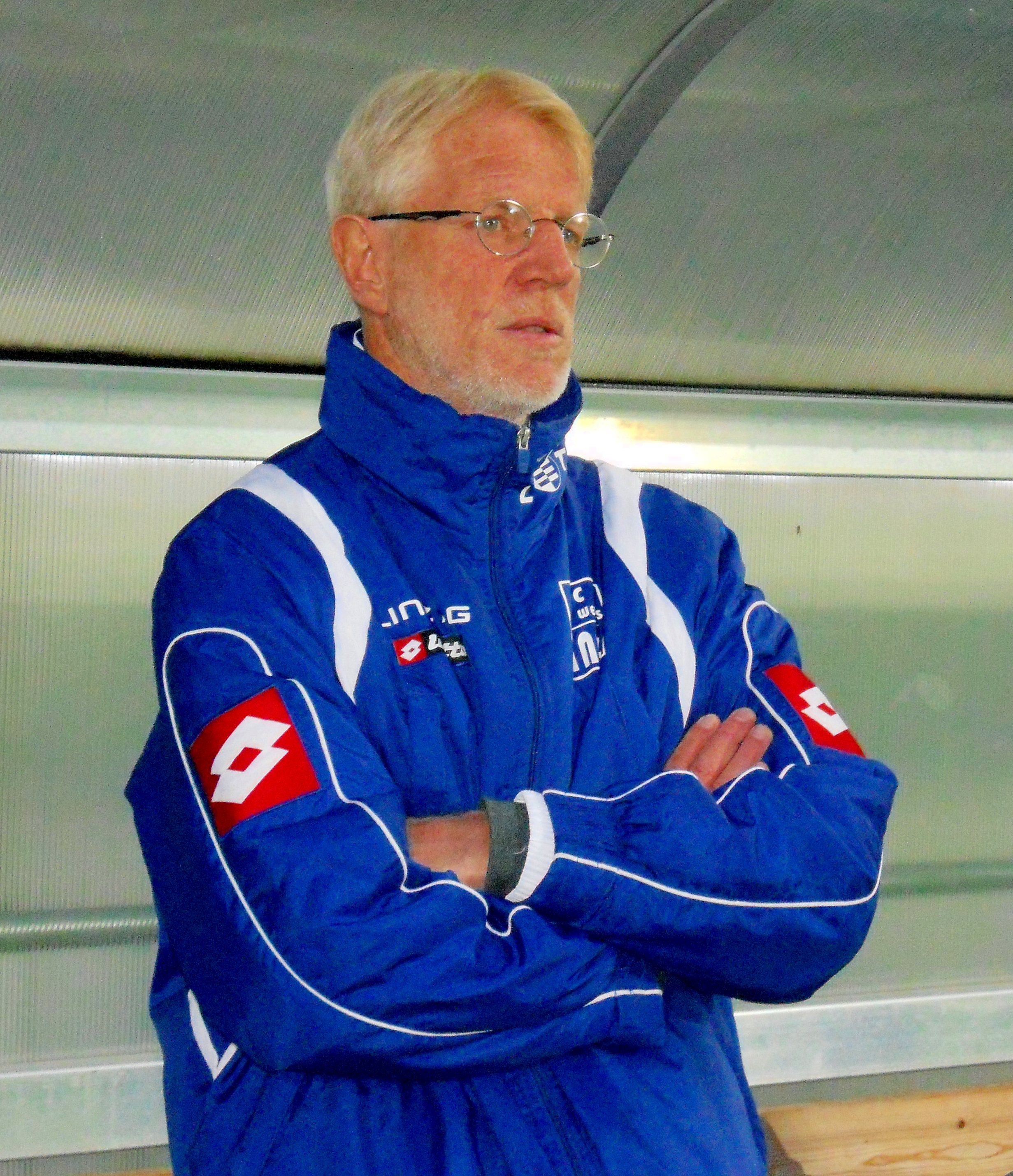 Edmund Stöhr, manager of FC BW Linz, during the "Erste Liga"-game SV Grödig vs FC Blau-Weiss Linz on 24 May 2013 at the Untersberg-Arena